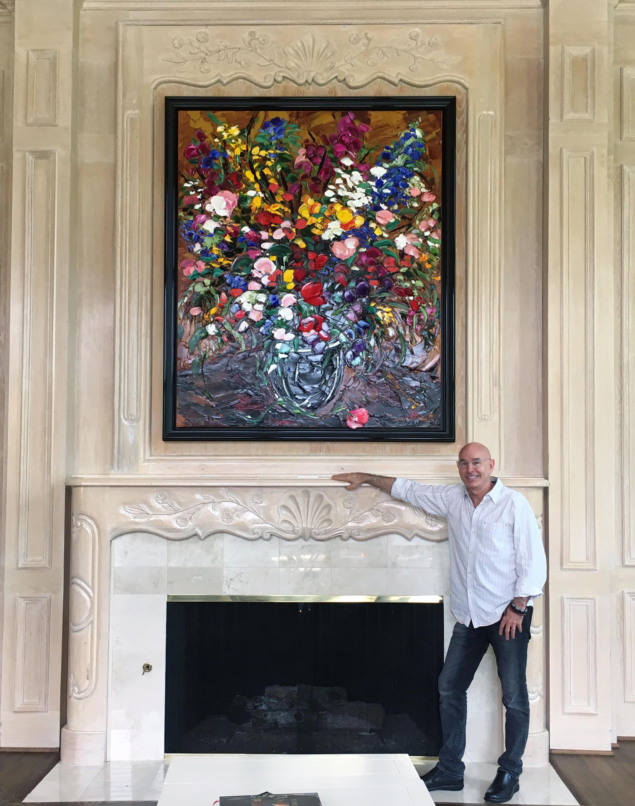 JD Miller with his 3D Oil Painting "A Grand Celebration" 72 x 60 inches